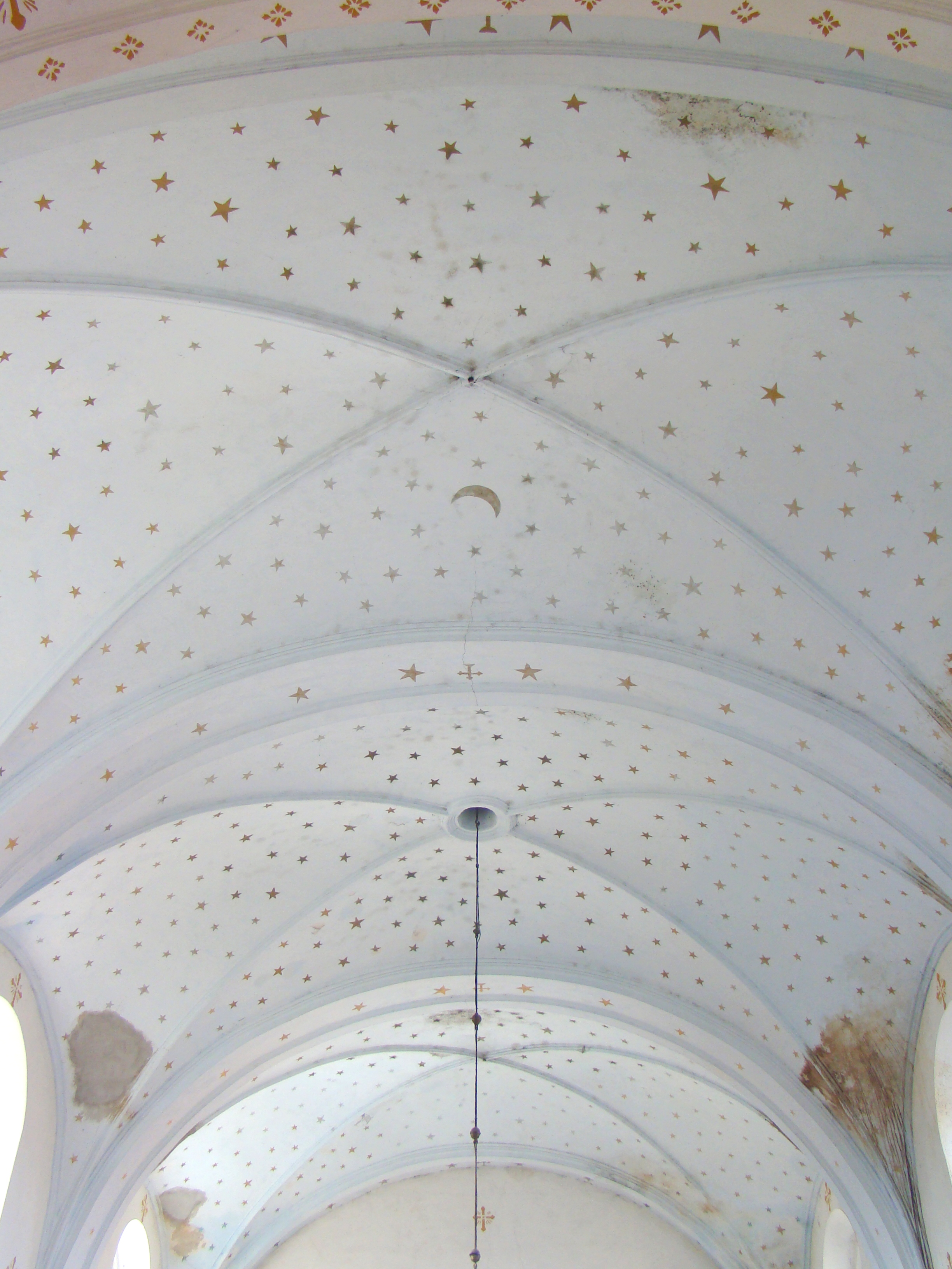 Saint Demetrius church in Crainimăt, Bistrița-Năsăud county, Romania